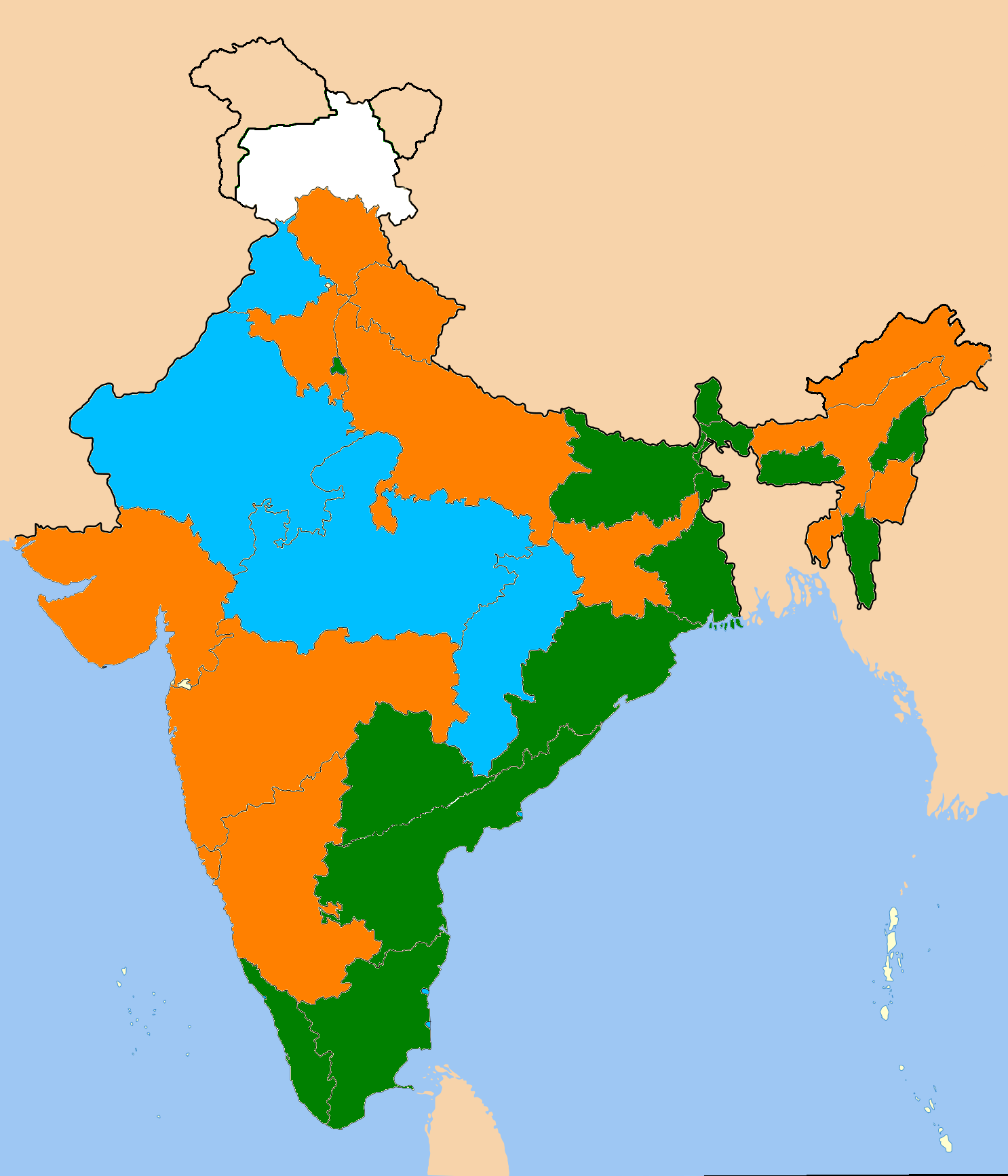 Indian states according to party of their chief minister. Bharatiya Janata Party Indian National Congress Other parties Note: this is not necessarily according to the parties/alliances forming the state government, but by the chief minister's party only.